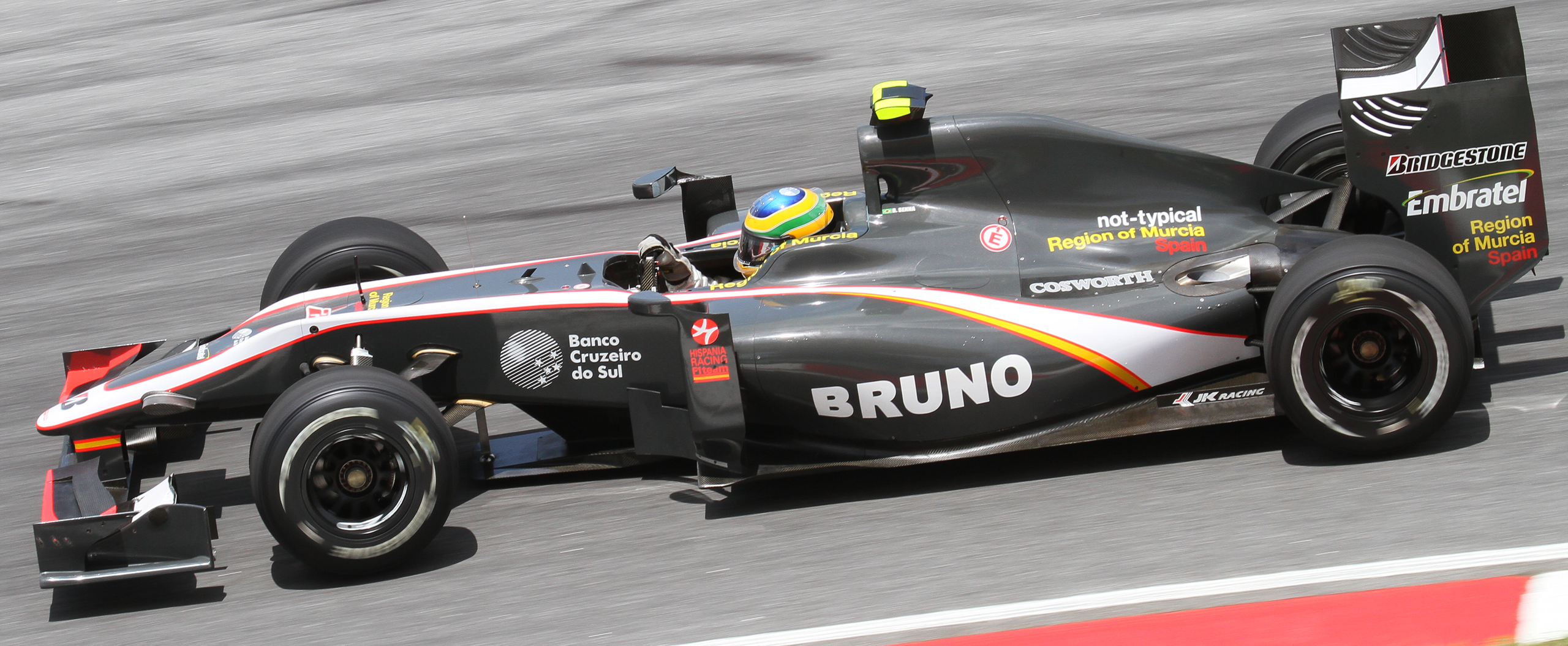 Formula One 2010 Rd.3 Malaysian GP: Bruno Senna (Hispania Racing) during Friday 2nd Free Practice session.